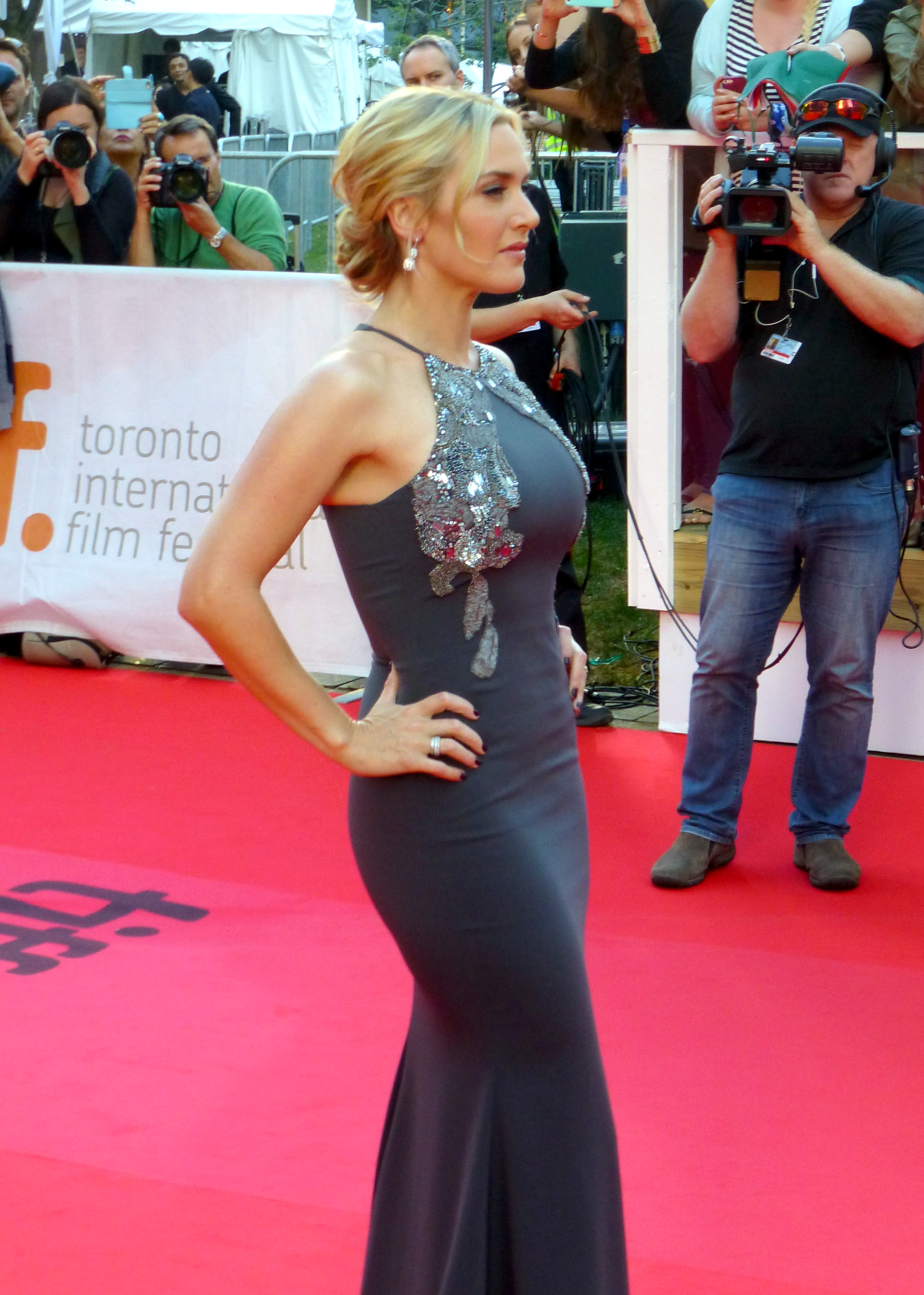 Kate Winslet at 2015 TIFF